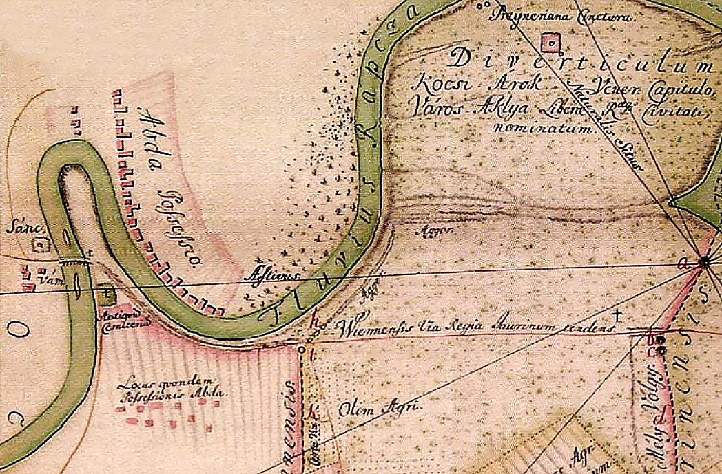 Abda, Hungary in the 1750s